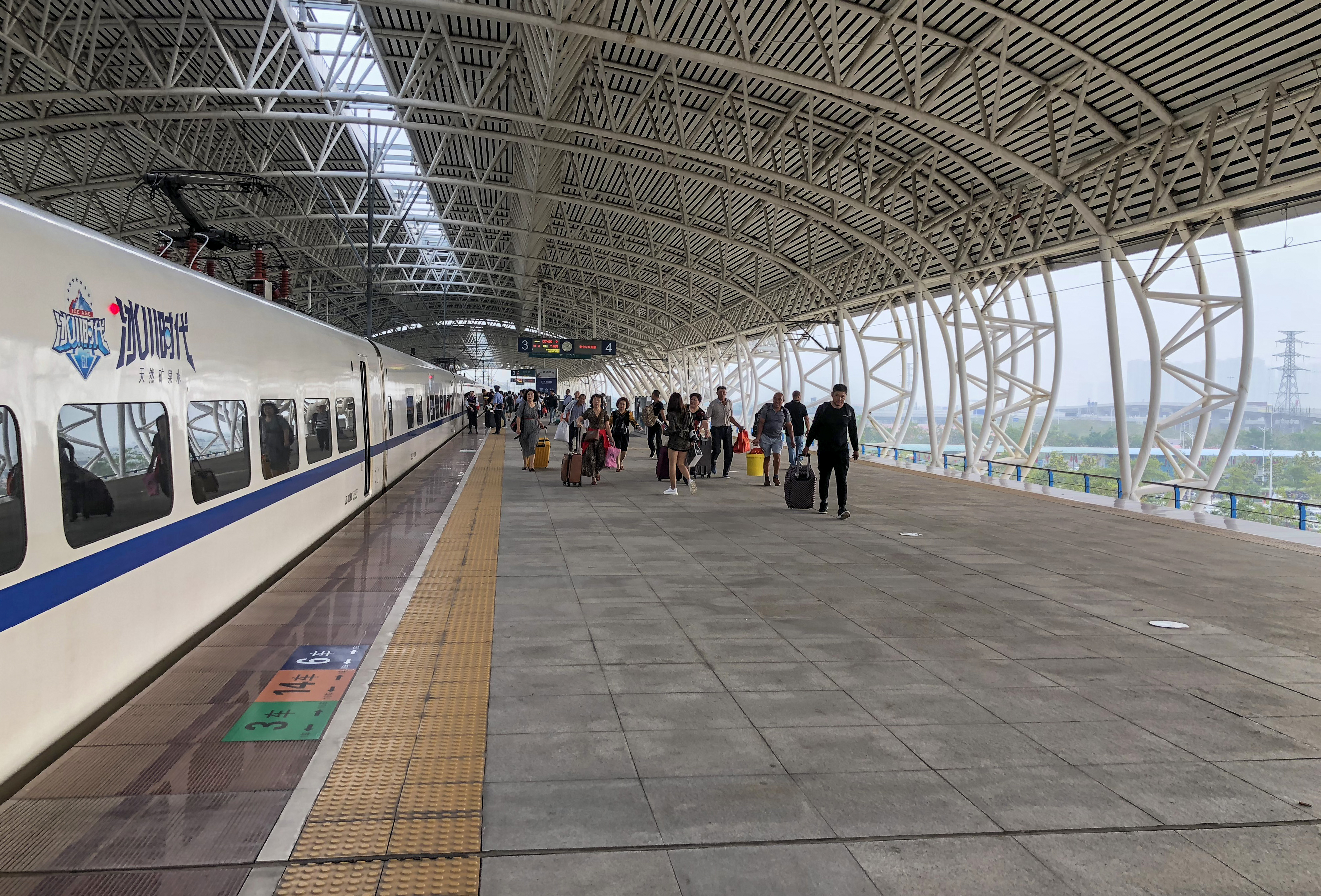 Taken during the stopover of D7470 - finally collected the Four Counties.